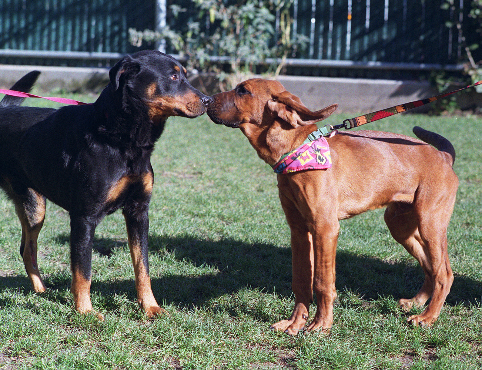 Cooper the bloodhound meets and greets friend. Photo by Nancy Wong